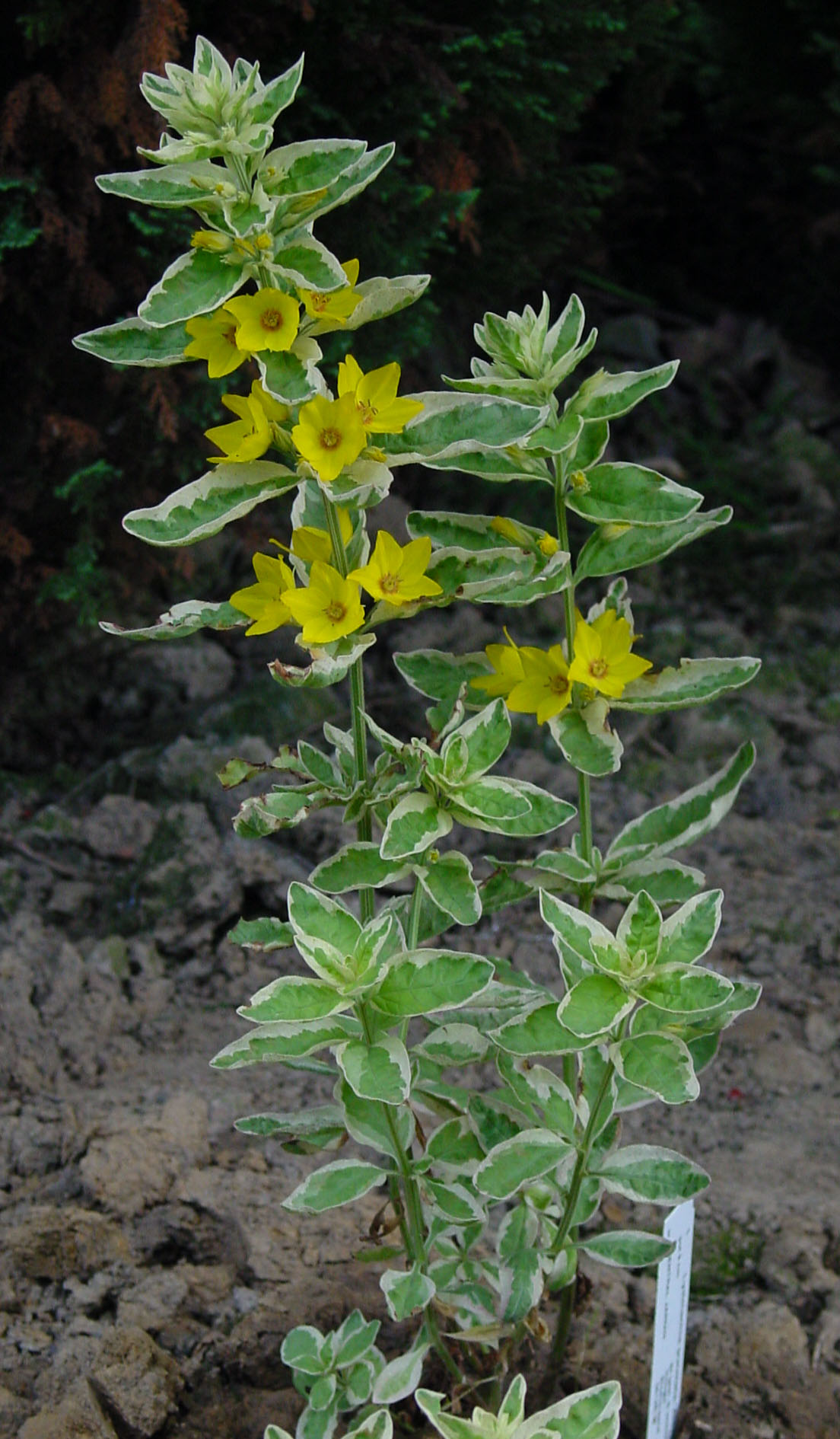 Whorled loosestrife, Yellow loosestrife